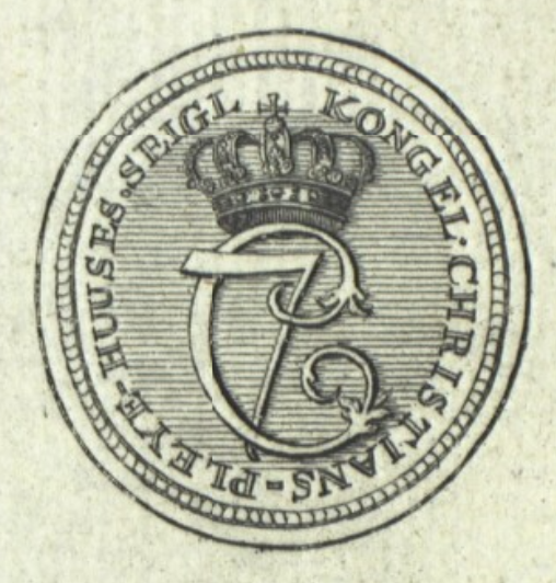 SeSeal from Christians plejehus in Copenhagen, Denmark